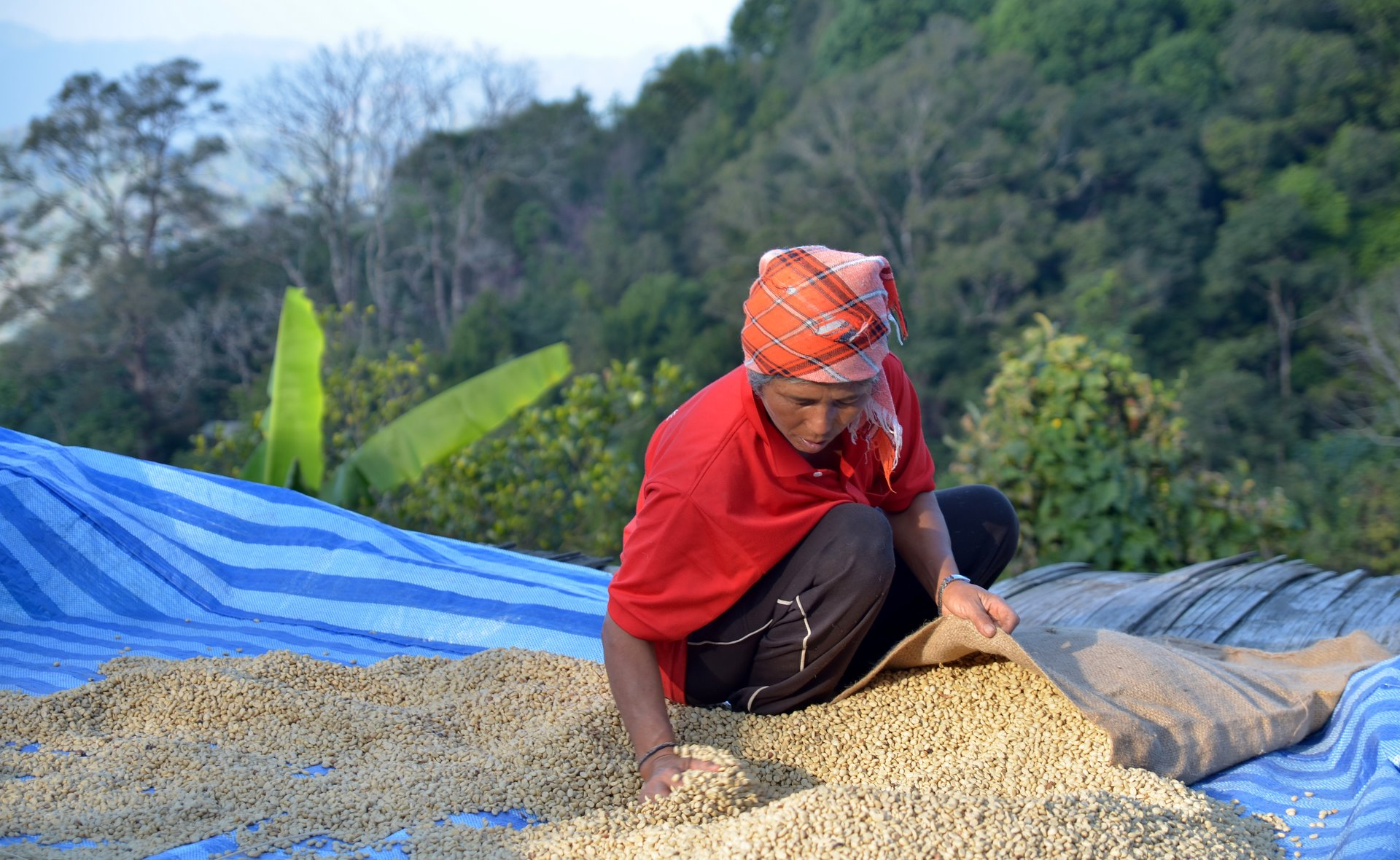 An Akha women fills jute bags with newly dried coffee beans. The beans are now ready to be shipped for hulling and roasting.